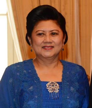 Former Indonesia First Lady Ani Yudhoyono in 2013.